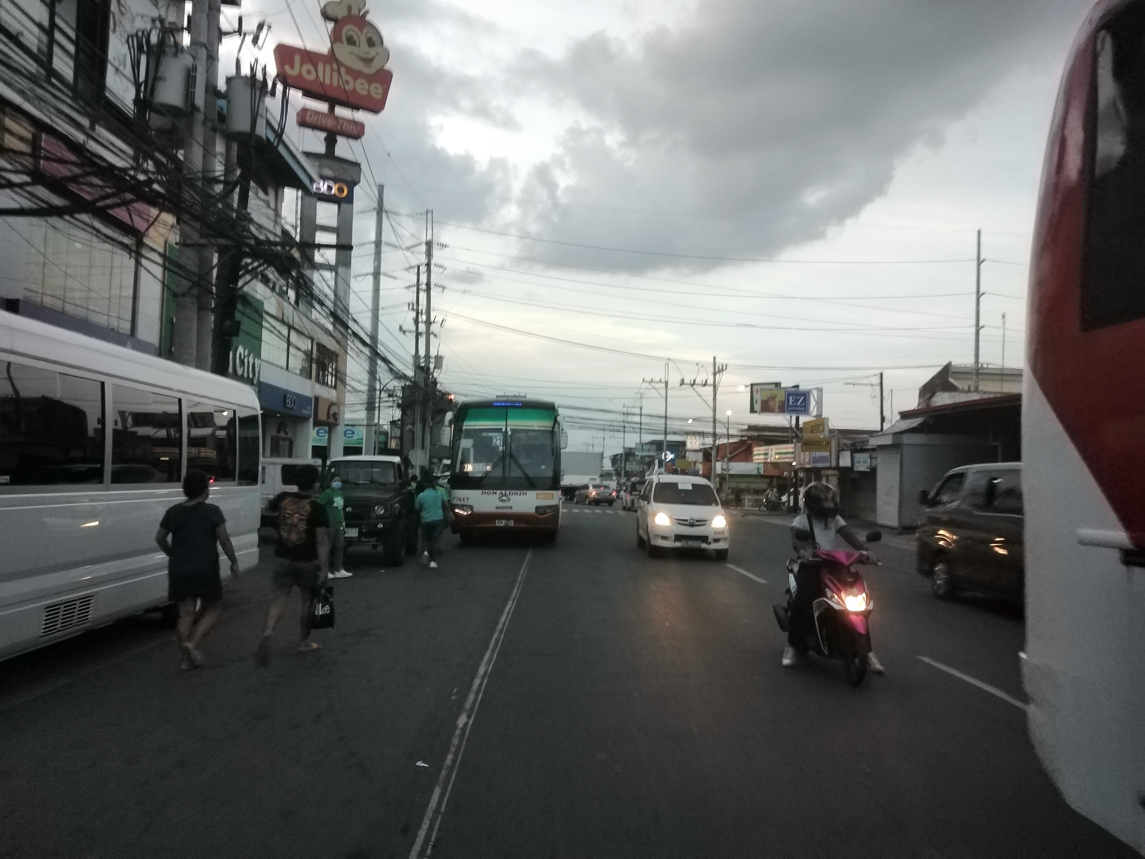 A segment of Trece Martires–Indang Road in Trece Martires.